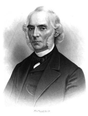 Hand-drawn portrait of David Hoadley, from: Trowbridge, Francis Bacon. The Hoadley Genealogy: A History of the Descendants of William Hoadley of Branford, Connecticut, Together with Some Account of Other Families of the Name. New Haven, Conn.: Francis Bacon Trowbridge, 1894, p. 74.